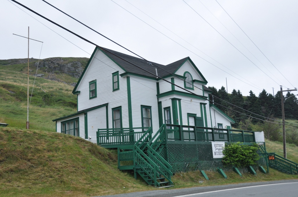 Historic Ferryland Museum Municipal Heritage Site, Ferryland, Newfoundland.